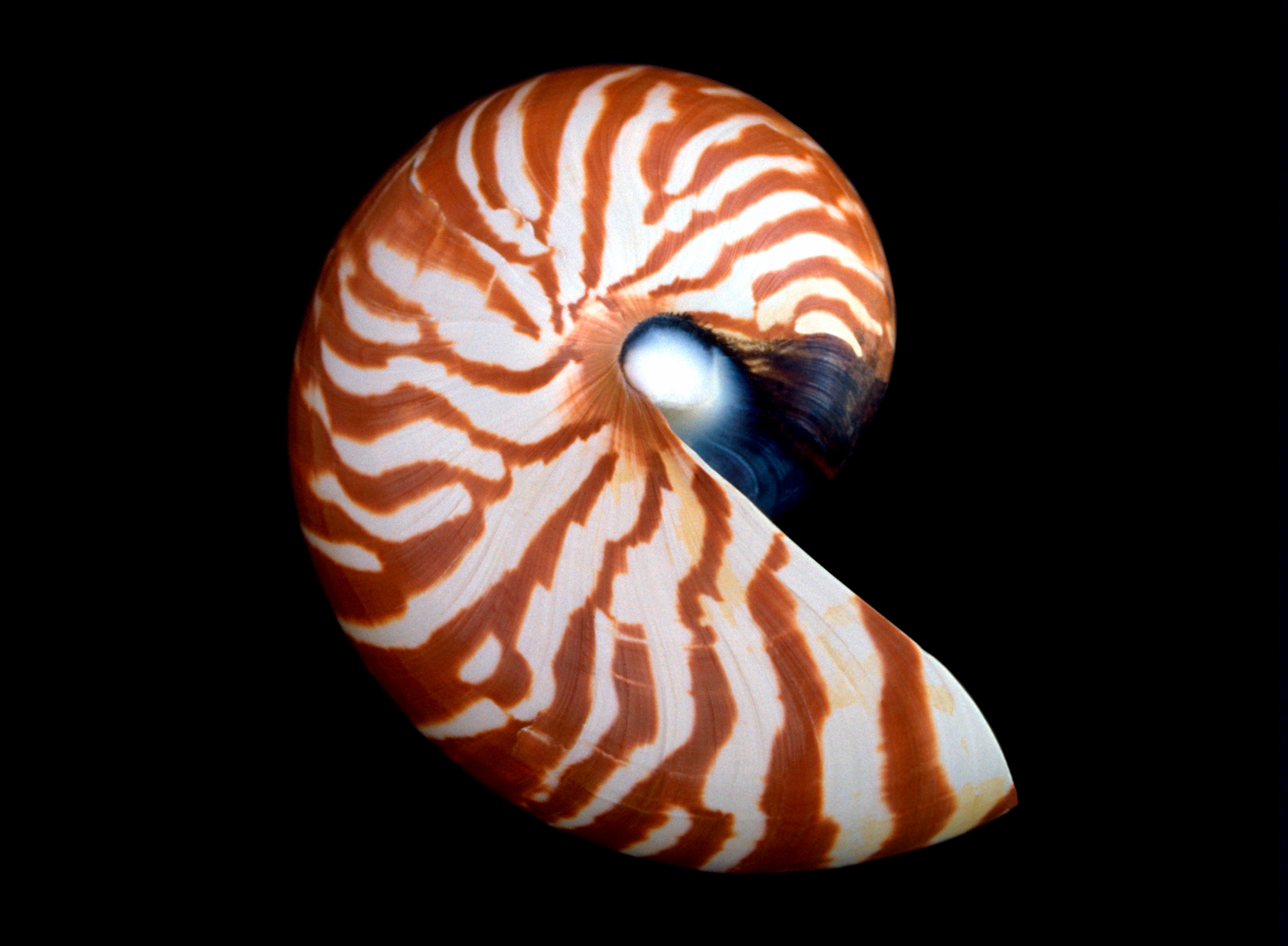 External surface of the shell of the “primitive” extant cephalopod species Nautilus macromphalus LINNAEUS